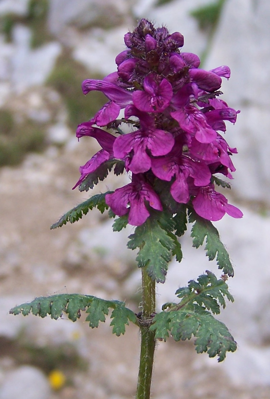 Pedicularis verticillata (pl. gnidosz okółkowy), habitat: West Tatra Mountains, Hala Upłaz